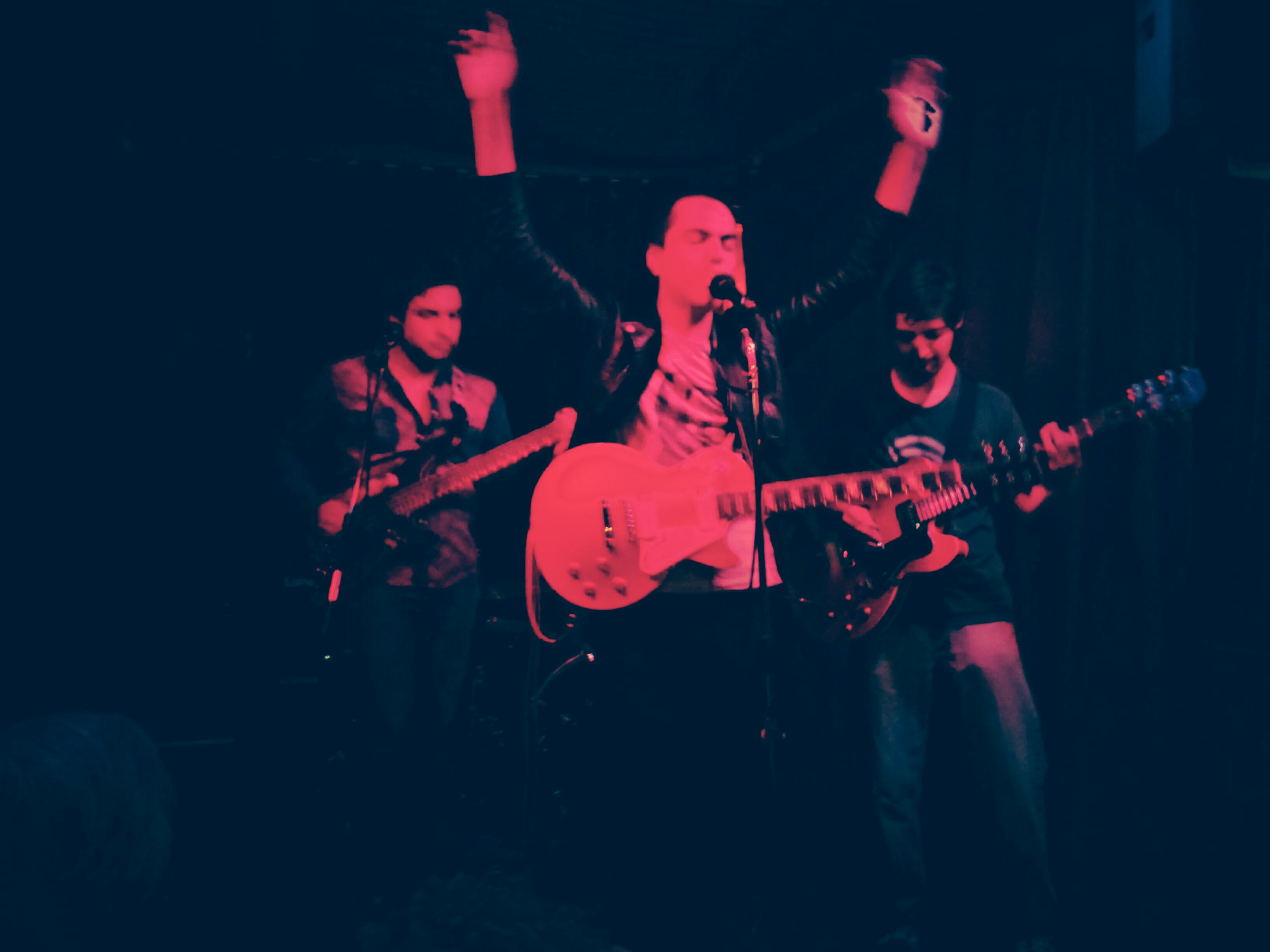 Coctel Intergaláctico